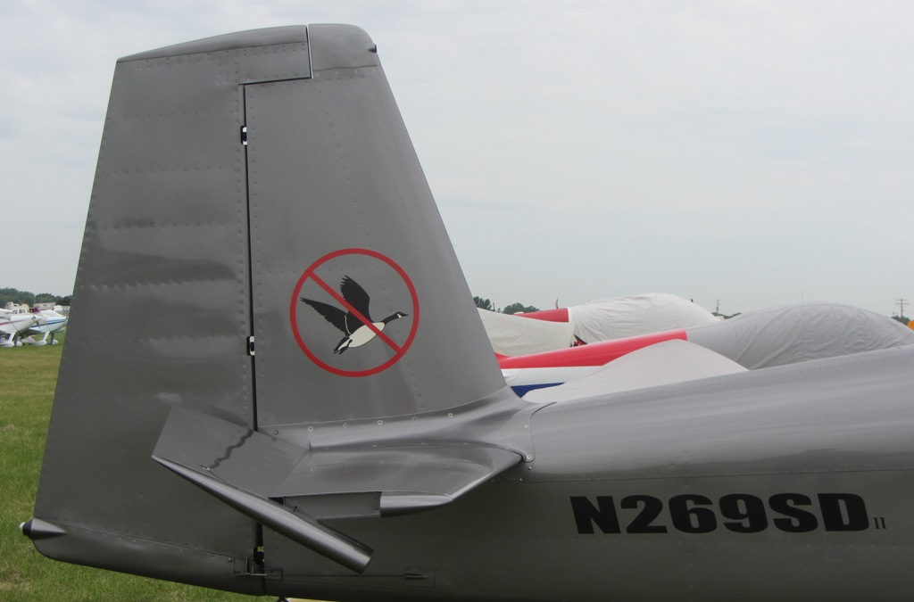 Vans RV